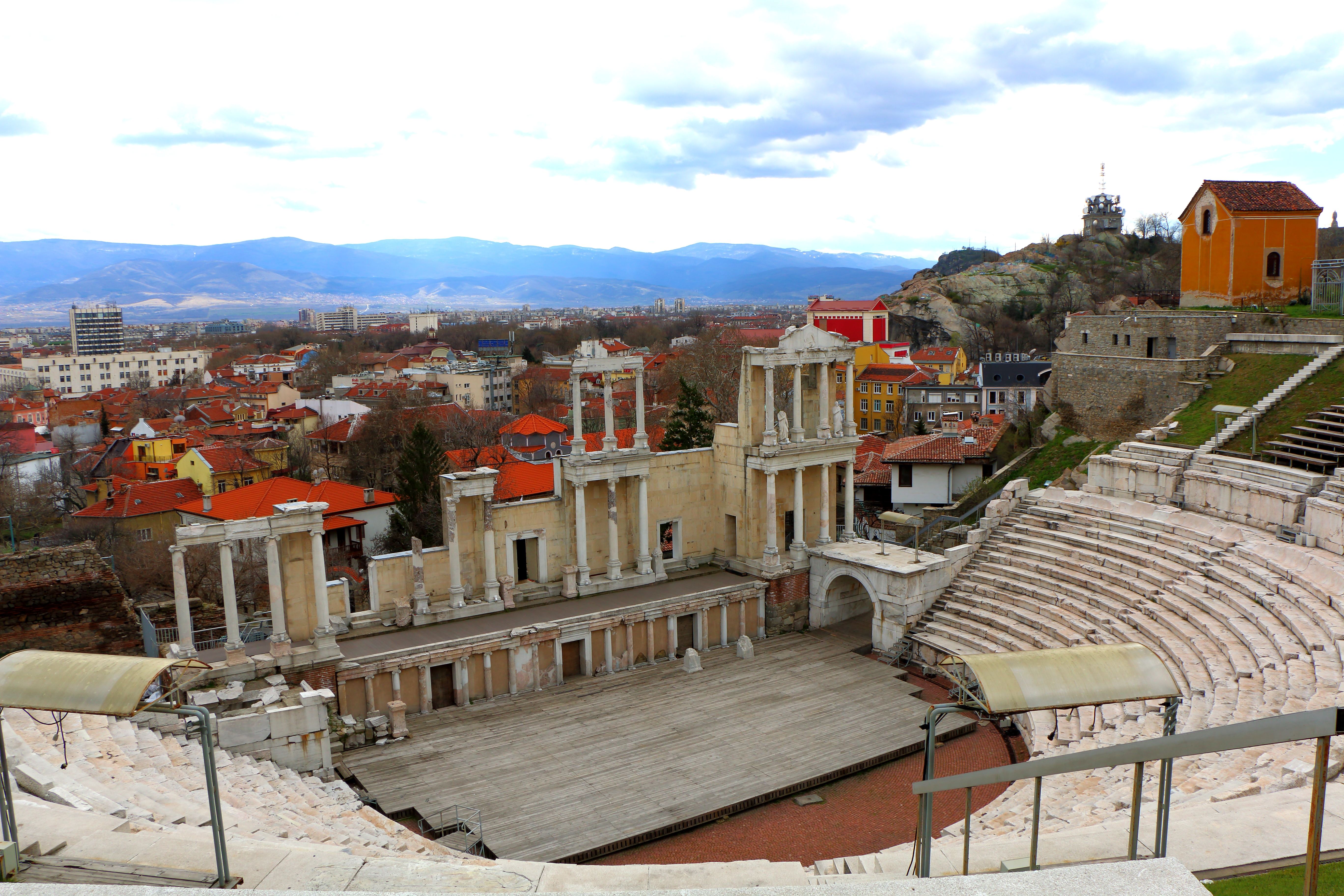 The ancient theatre of Philippopolis